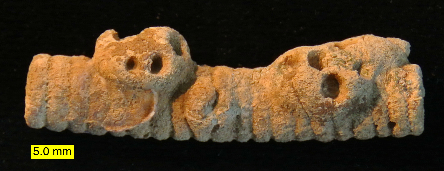 Galls with perforations on a crinoid stem (Apiocrinites negevensis) from the Middle Jurassic of southern Israel.